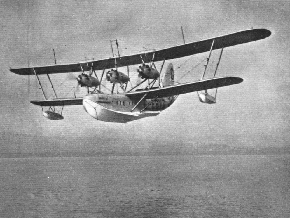 The Short S.8 Calcutta alighting on water.